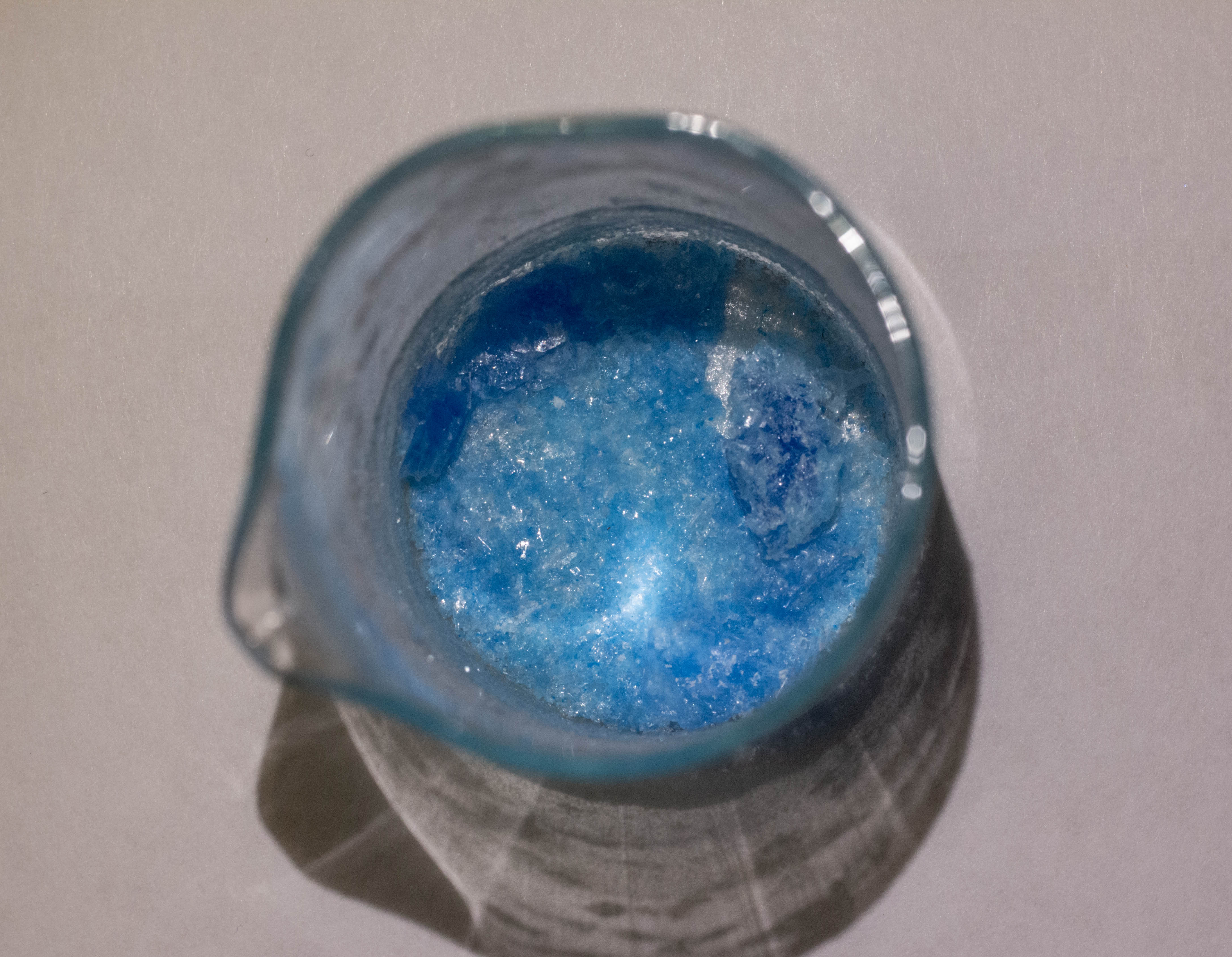 Crystals of potassium peroxydicarbonate obtained by anodic oxidation of potassium hydrocarbonate